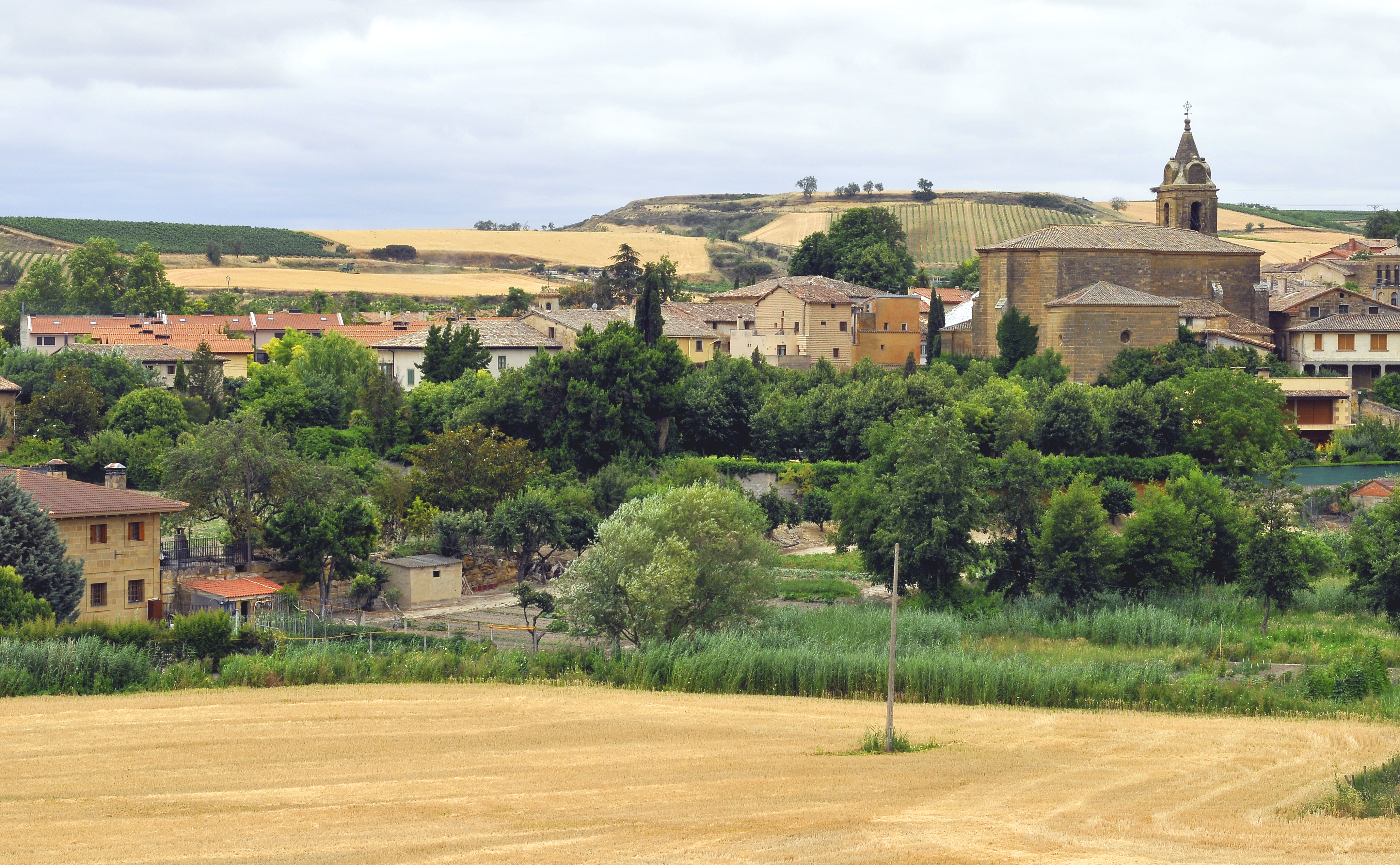 The village and its surroundings. Ollauri, La Rioja, Spain